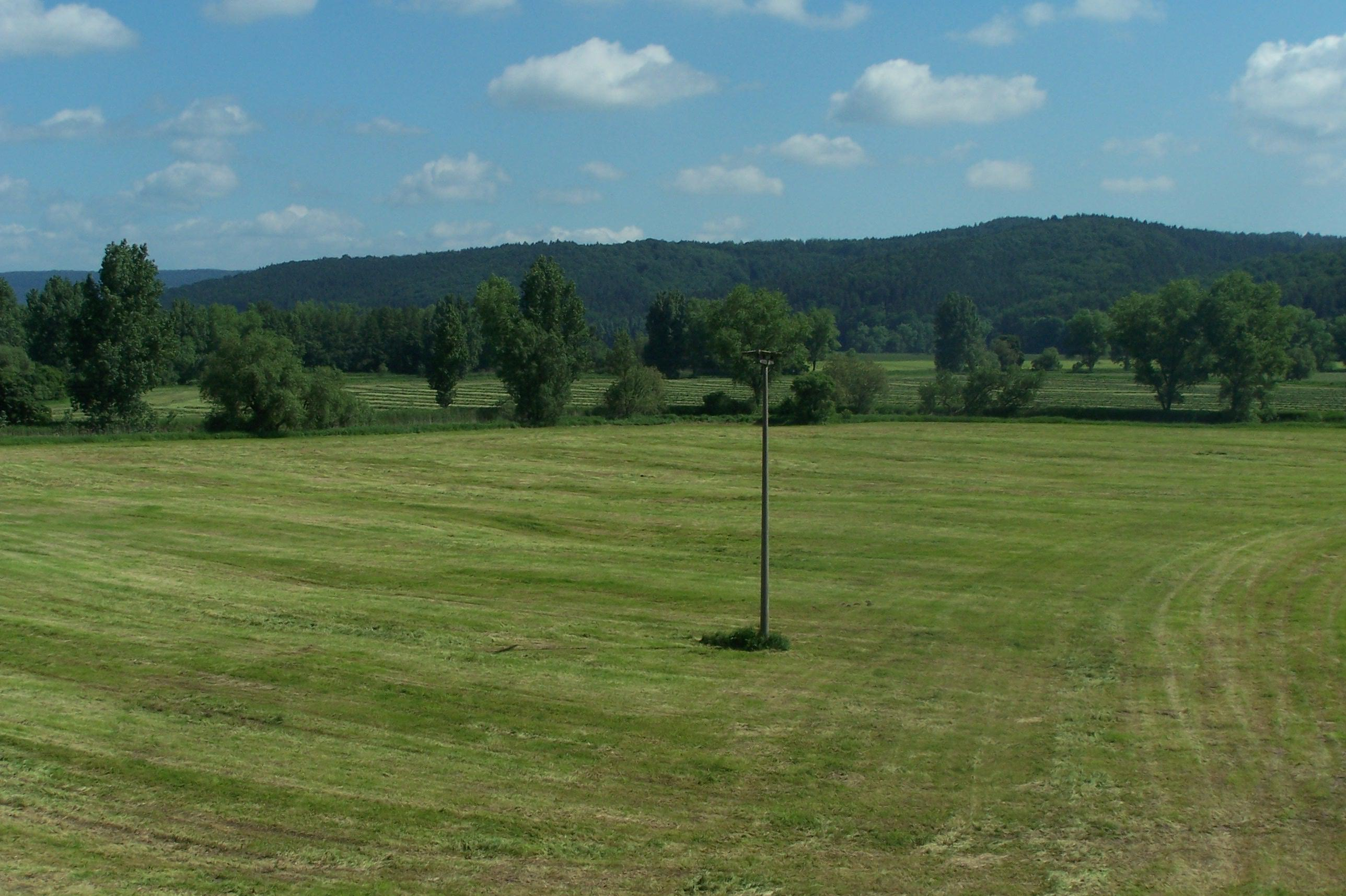 The Böller forest seen from Gerstungen.